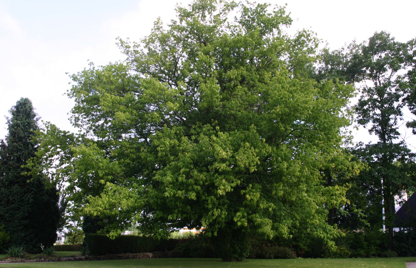 Acer negundo: Habit. Mature tree at Holme churchyard, Denmark.